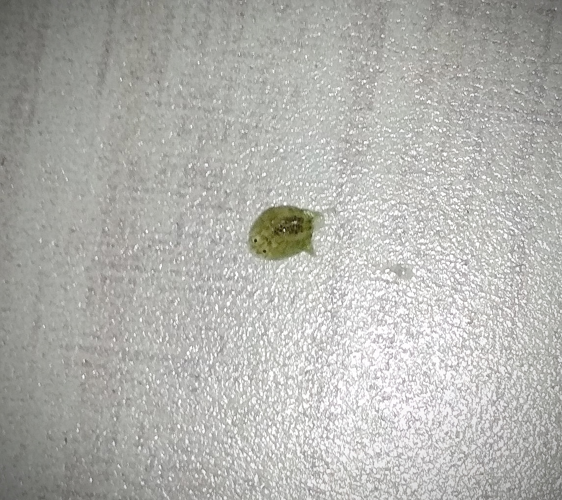 This lice is present on my gold fish so I removed it manually,it is a lice which feeds on fish